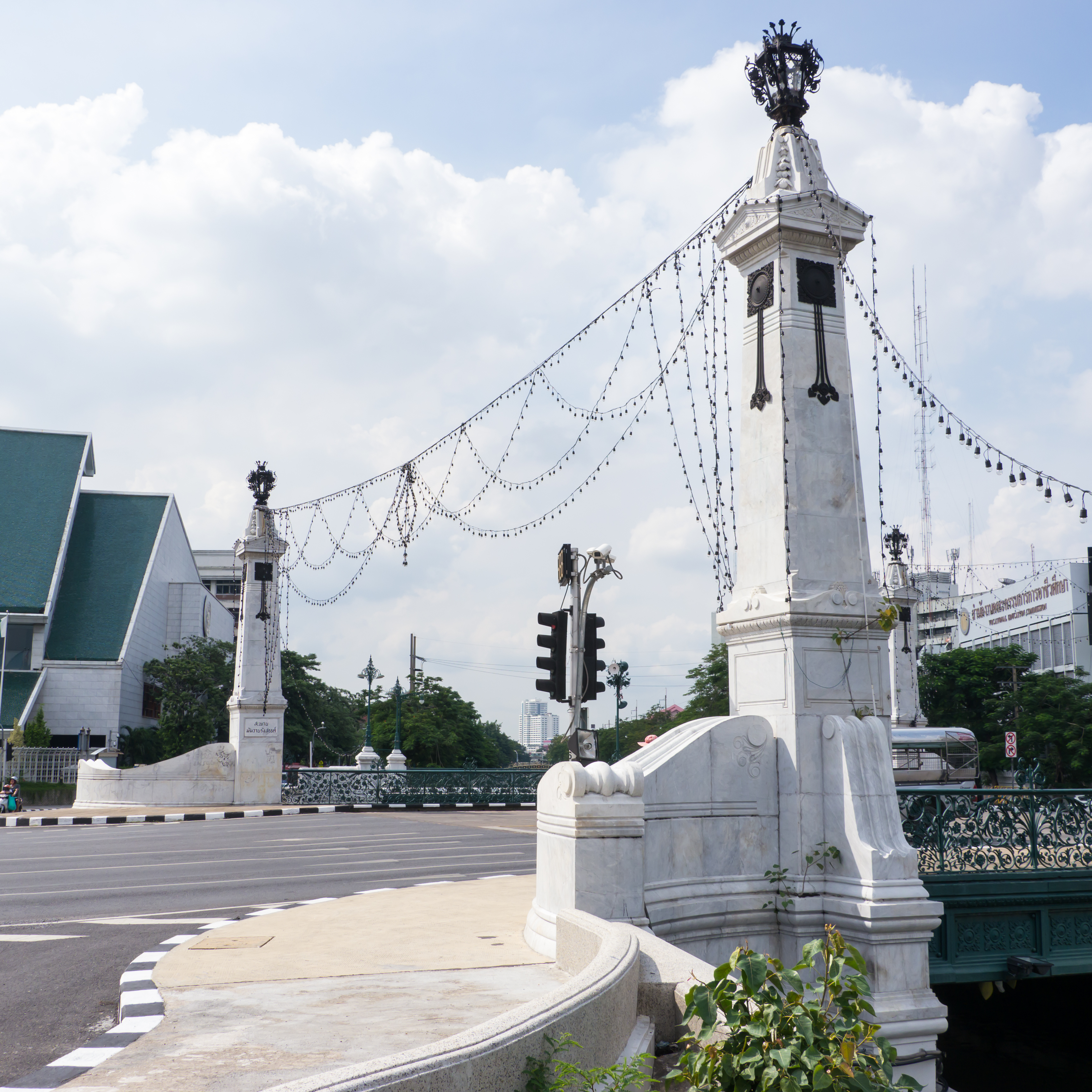 สะพานมัฆวานรังสรรค์